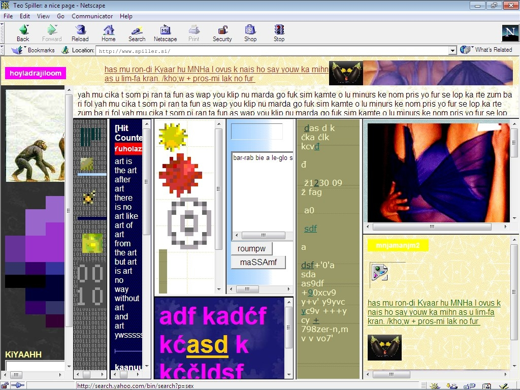 A Screenshot of Teo Spiller's net.art Nice Page